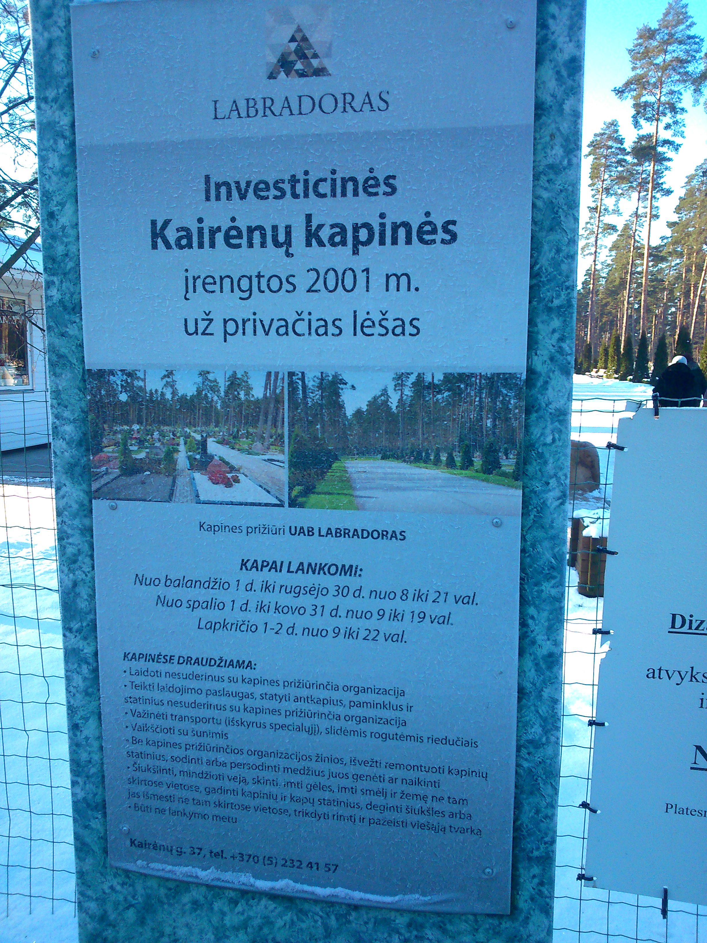 Kairėnai kapinės